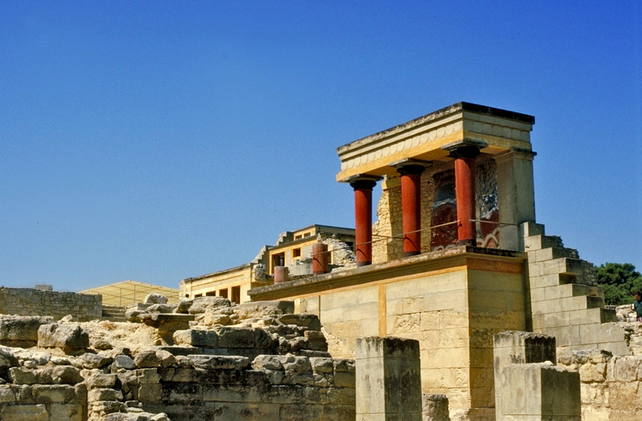 Minos's Palace.